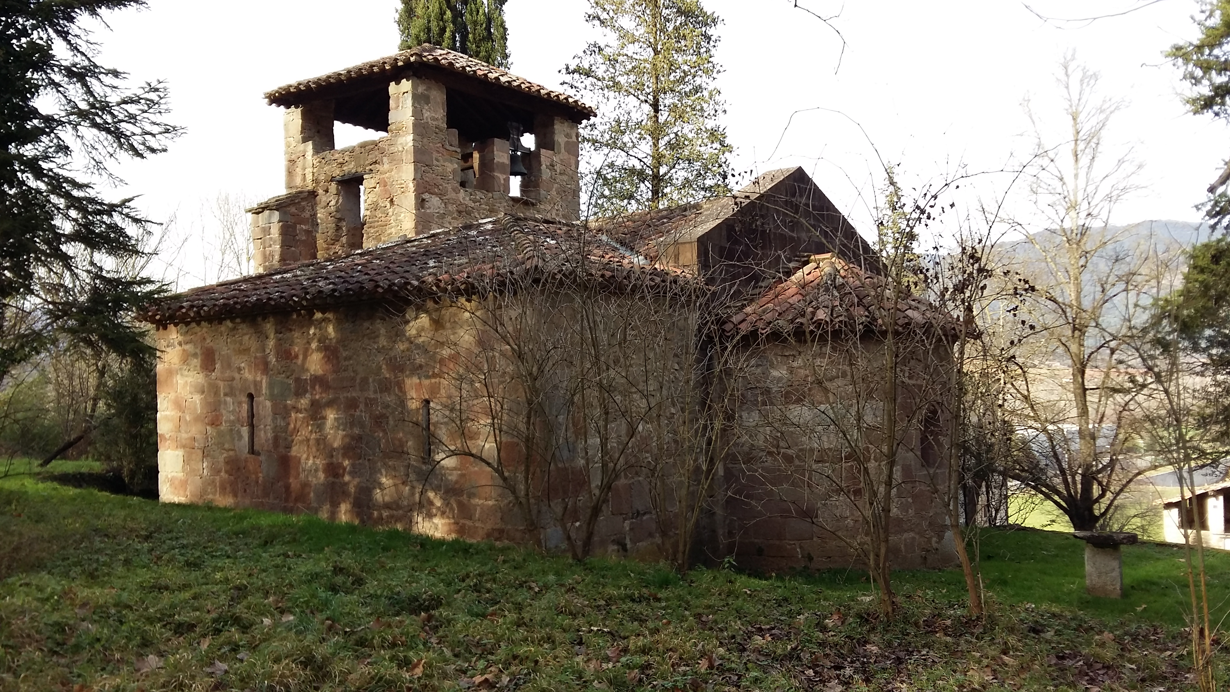 Romanesque Church Sant Andreu de Socarrats at Val de Bianya (Catalunya)